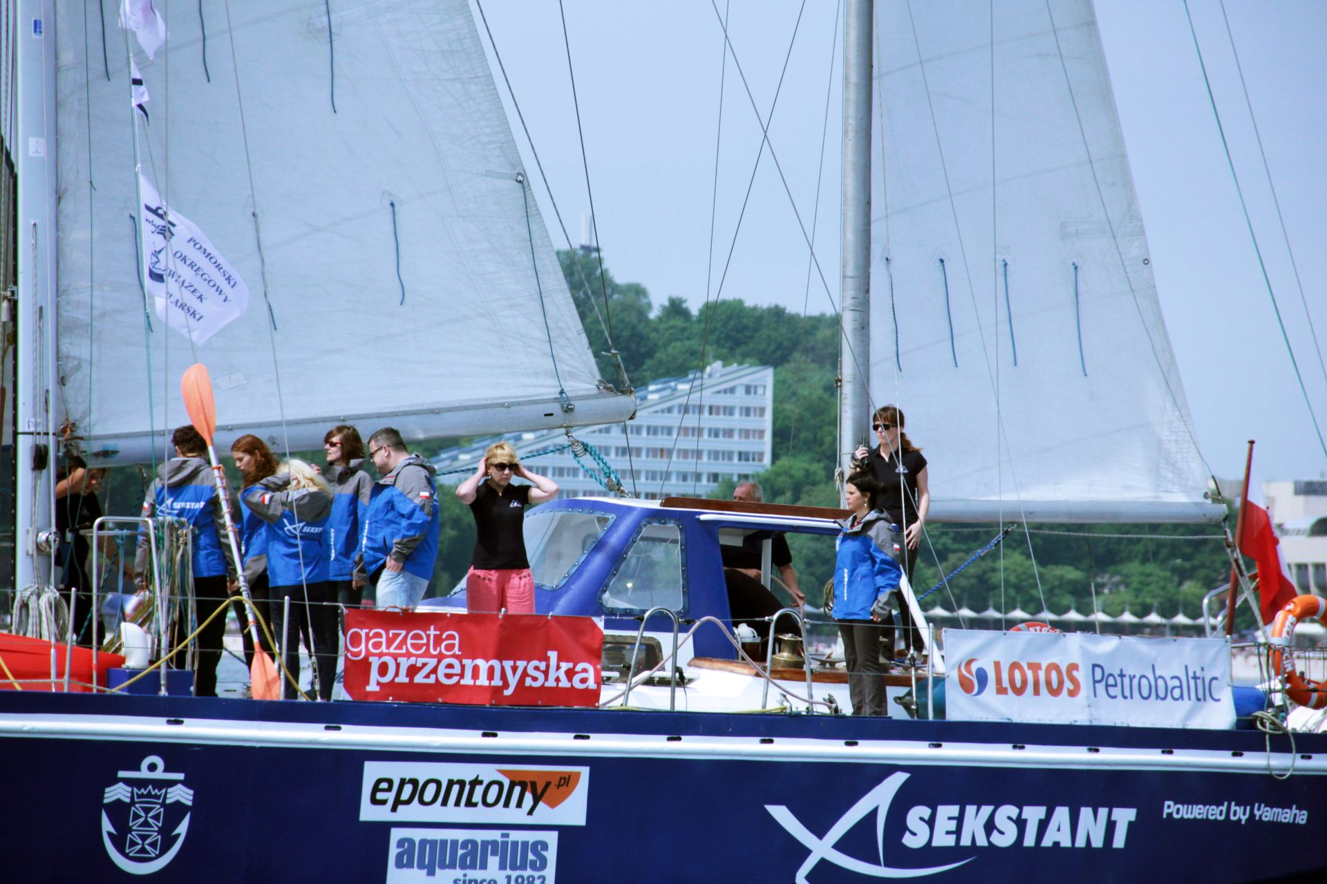 S/Y Barlovento II crew, Gdynia Poland, June 2013